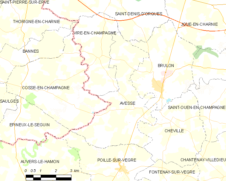 Map of French municipality